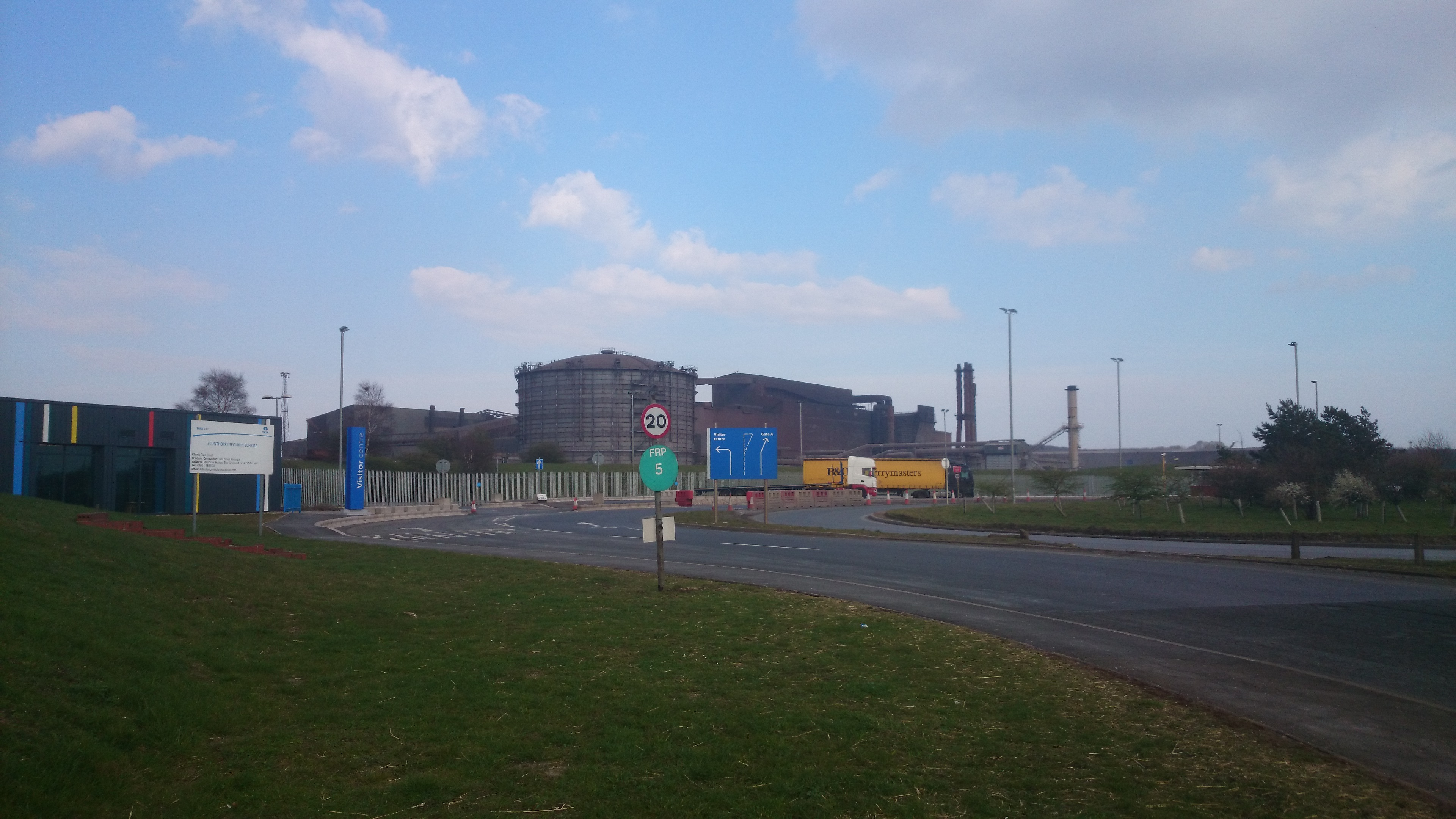 The basic oxygen steel making plant on Scunthorpe's steelworks, March 2014.